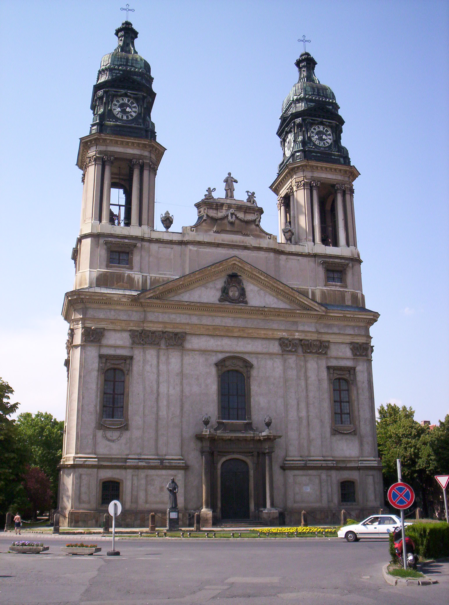 The Saint Stephen parish-church (so-called Grand Church) in Pápa A pápai Szent István plébániatemplom (Nagytemplom)